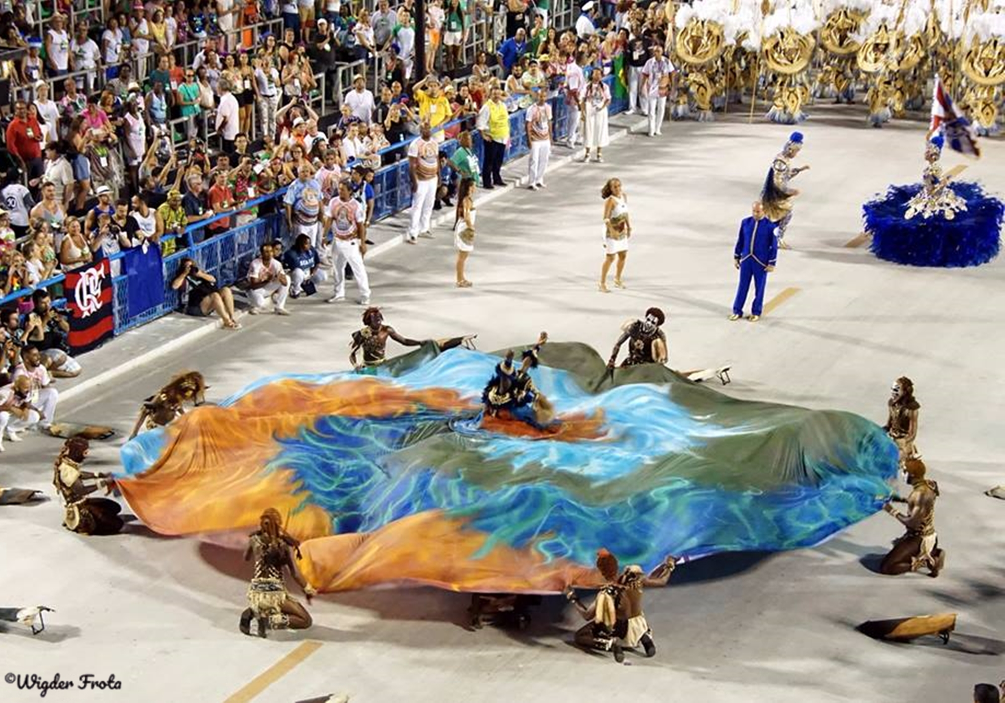 From the Series "Samba Schools, Rio de Janeiro" Carnival 2017 Photo: Wigder Frota